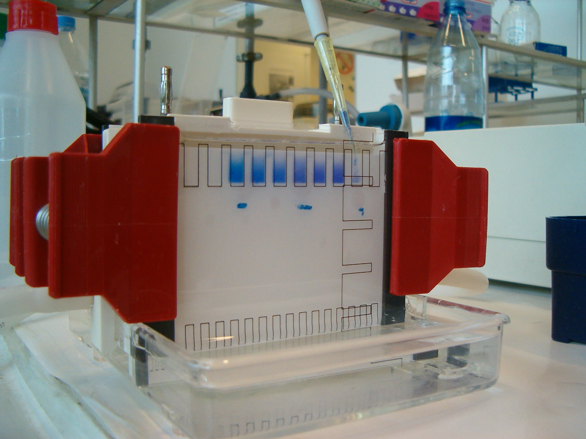 Electrophoresis. Filling 1D gel wells with proteins.